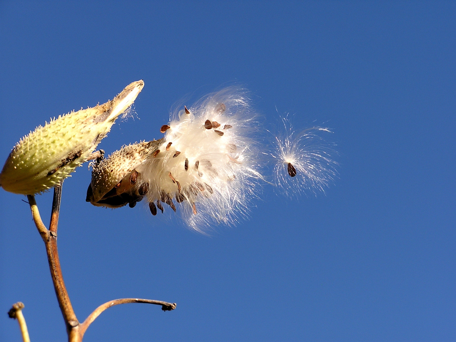 breakaway